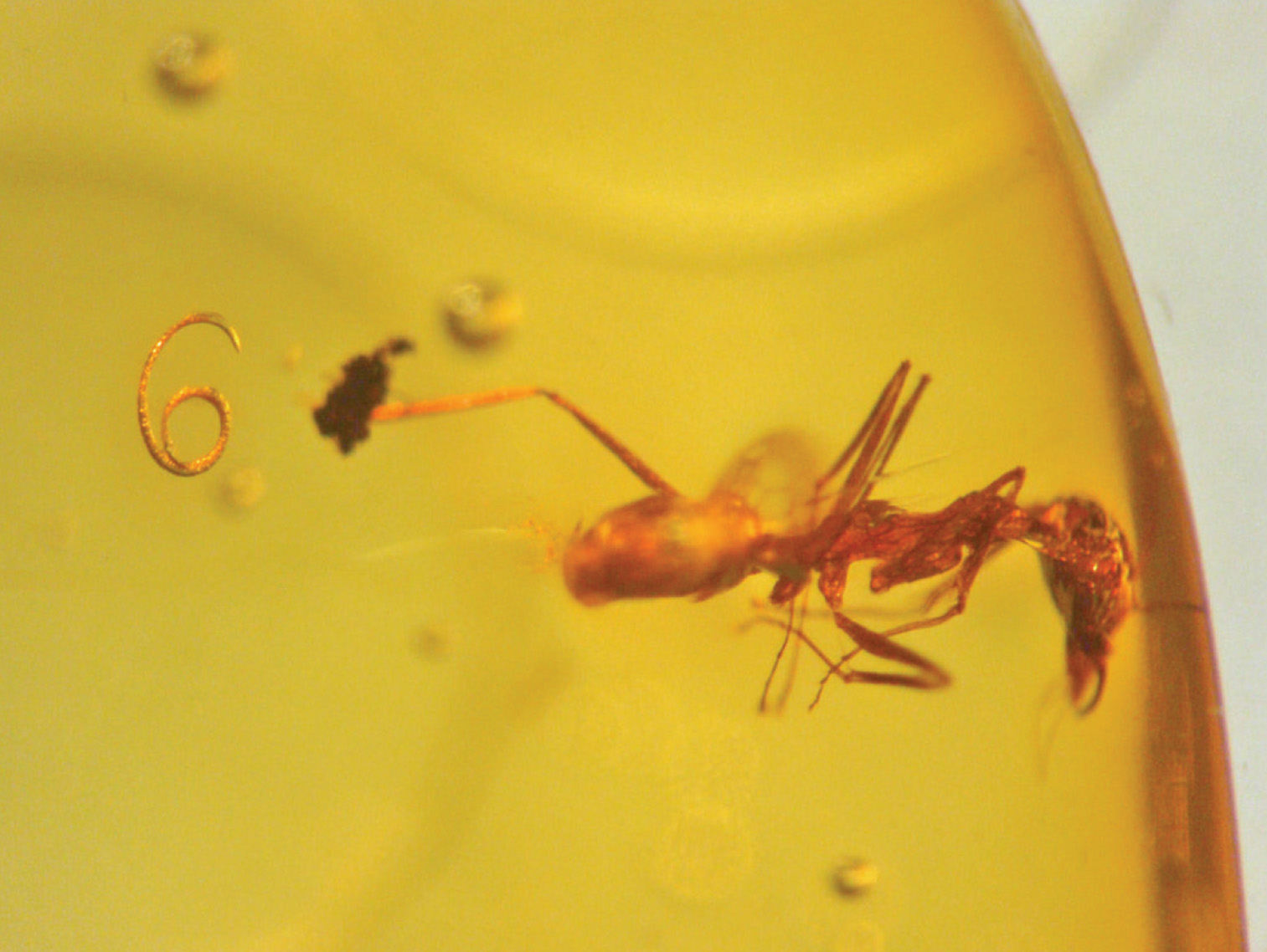 Original image caption: Heydenius myrmecophila [a mermithid nematode] adjacent to its Linepithema ant host in Dominican amber.In the text (p. 2) it further says that the amber is 20-30 million years old (Oligocene to Early Miocene) and that “it is assumed that the traumatic events of the ant host entering the resin caused the mermithid to emerge prematurely from an opening in the gaster of the ant.”